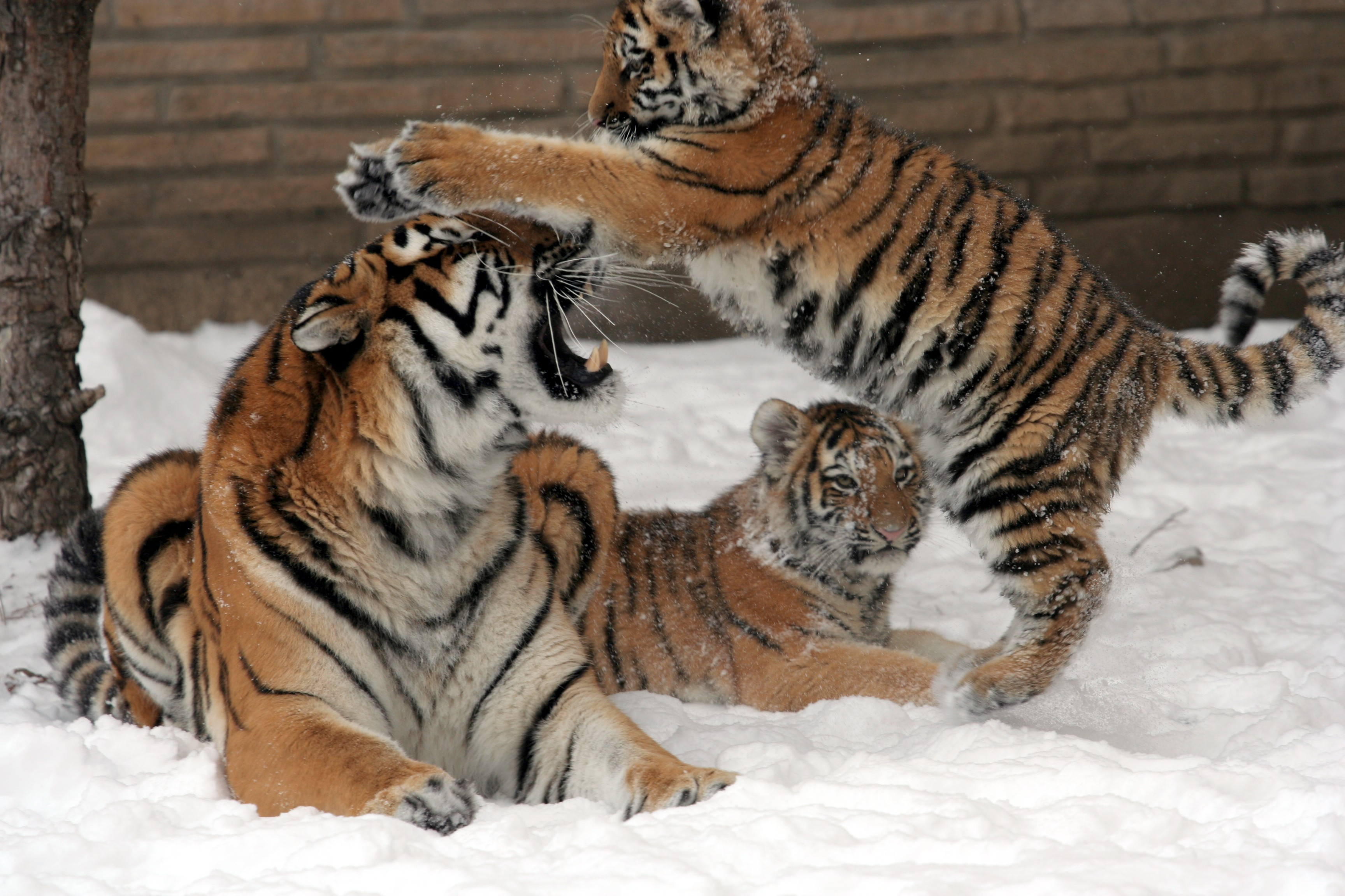 Amur tiger (Panthera tigris altaica) at the Buffalo Zoo. Cubs Thyme and Warner, with their mother Sungari. The cubs were born at the zoo to Sungari, and father Toma, on 7 October 2007.